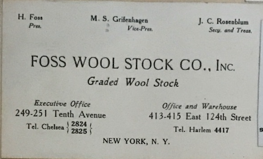 Foss Wool Stock Co. Business Card, VP Max Samuel Grifenhagen